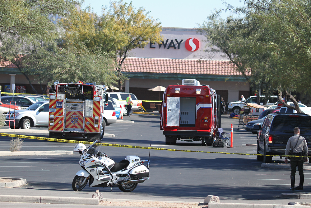 The Safeway at Ina and Oracle Road at the scene of the 2011 Tucson shooting. Victims include John Roll, who died, and Gabrielle Giffords, who survived a gunshot wound to the head.